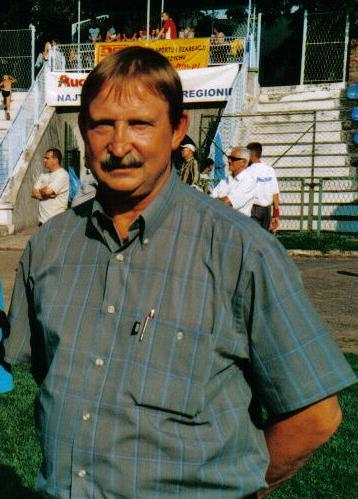 Andrzej Szarmach 2007